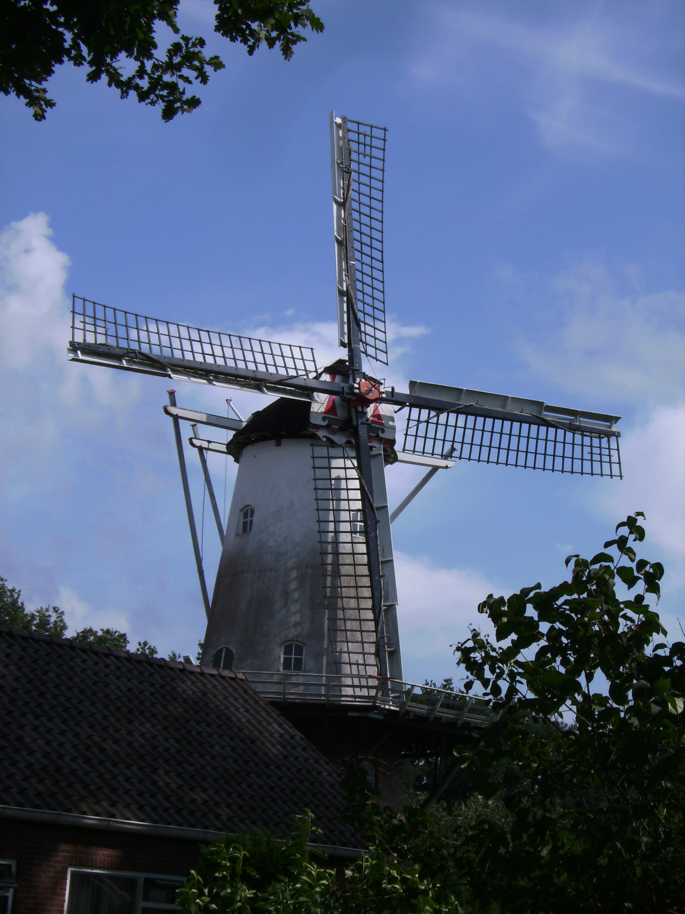 Bellingwolde, windmill